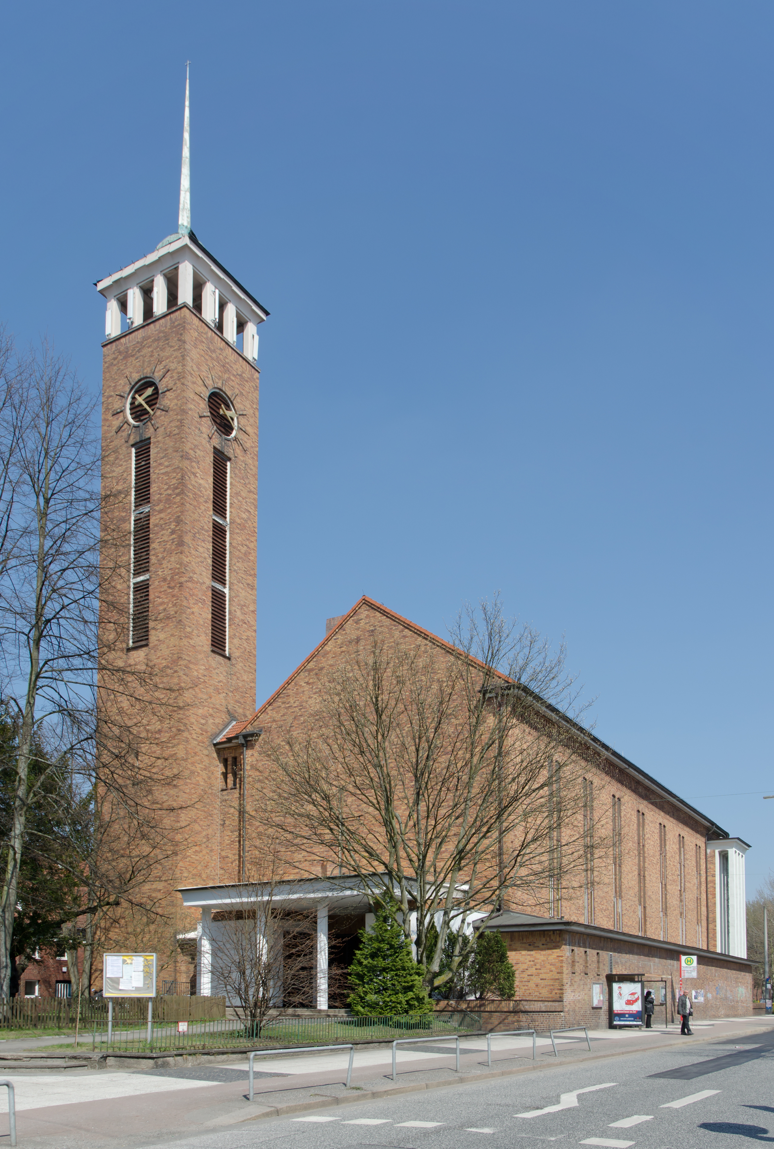 Frohebotschaftskirche HH Dulsberg This is a photograph of an architectural monument.